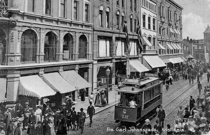 Kristiania Kommunale Sporveie tram in Karl Johans gate